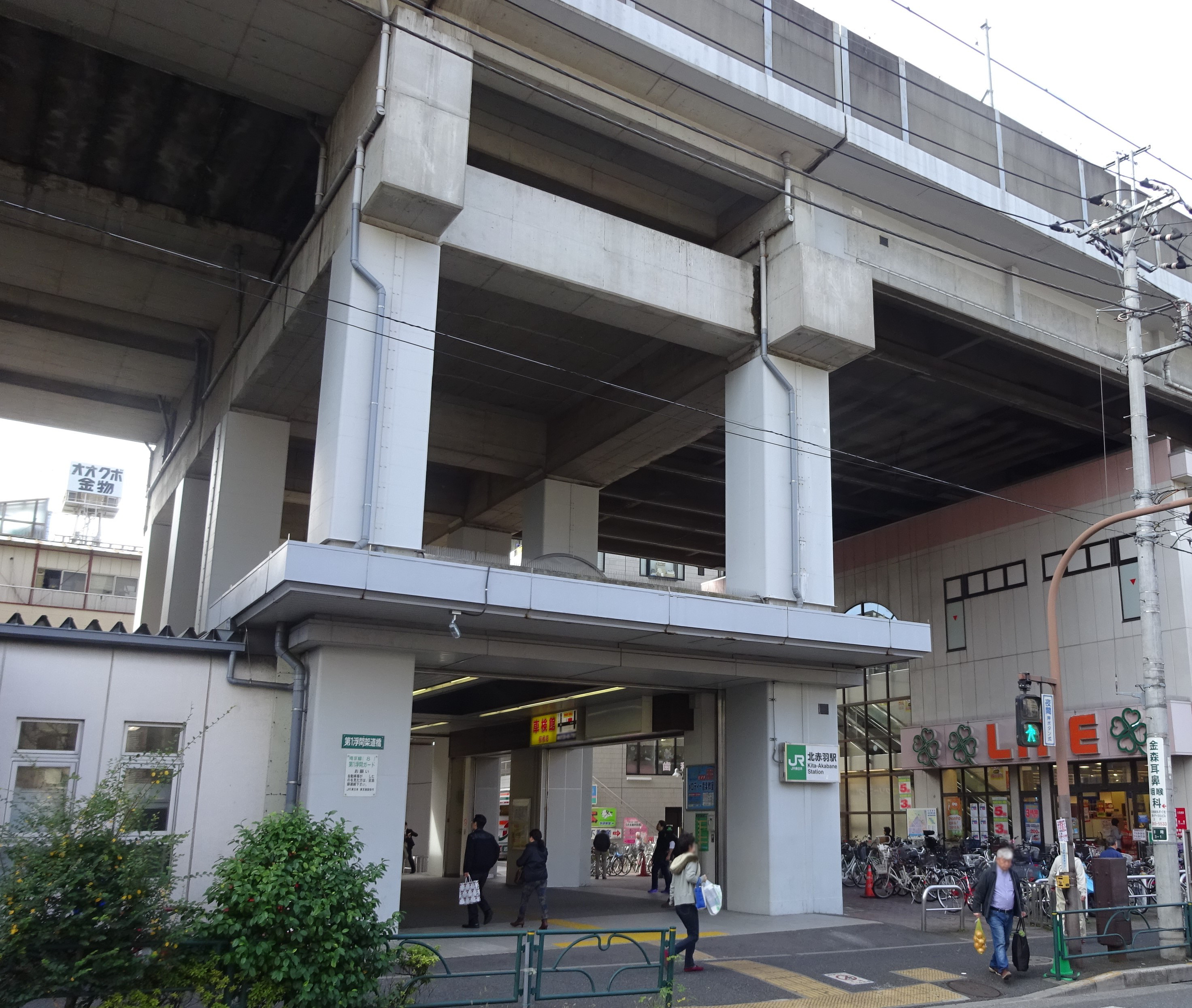 Ukima Exit of Kita-Akabane Station